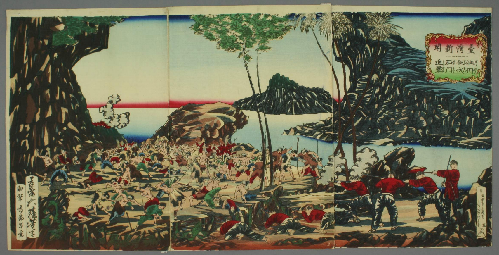 Taiwan expedition. 1875 Japanese painting. Title in romaji: "Taiwan shinbun : bōtan seibatsu sekimon no shingeki".